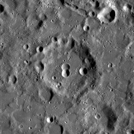 Sechenov lunar crater - LROC image. Chains of craterlets from Vavilov (top right, out of the frame); all the region is covered by ejecta from Hertzprung and, likely, Orientale basins